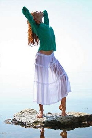 Lino